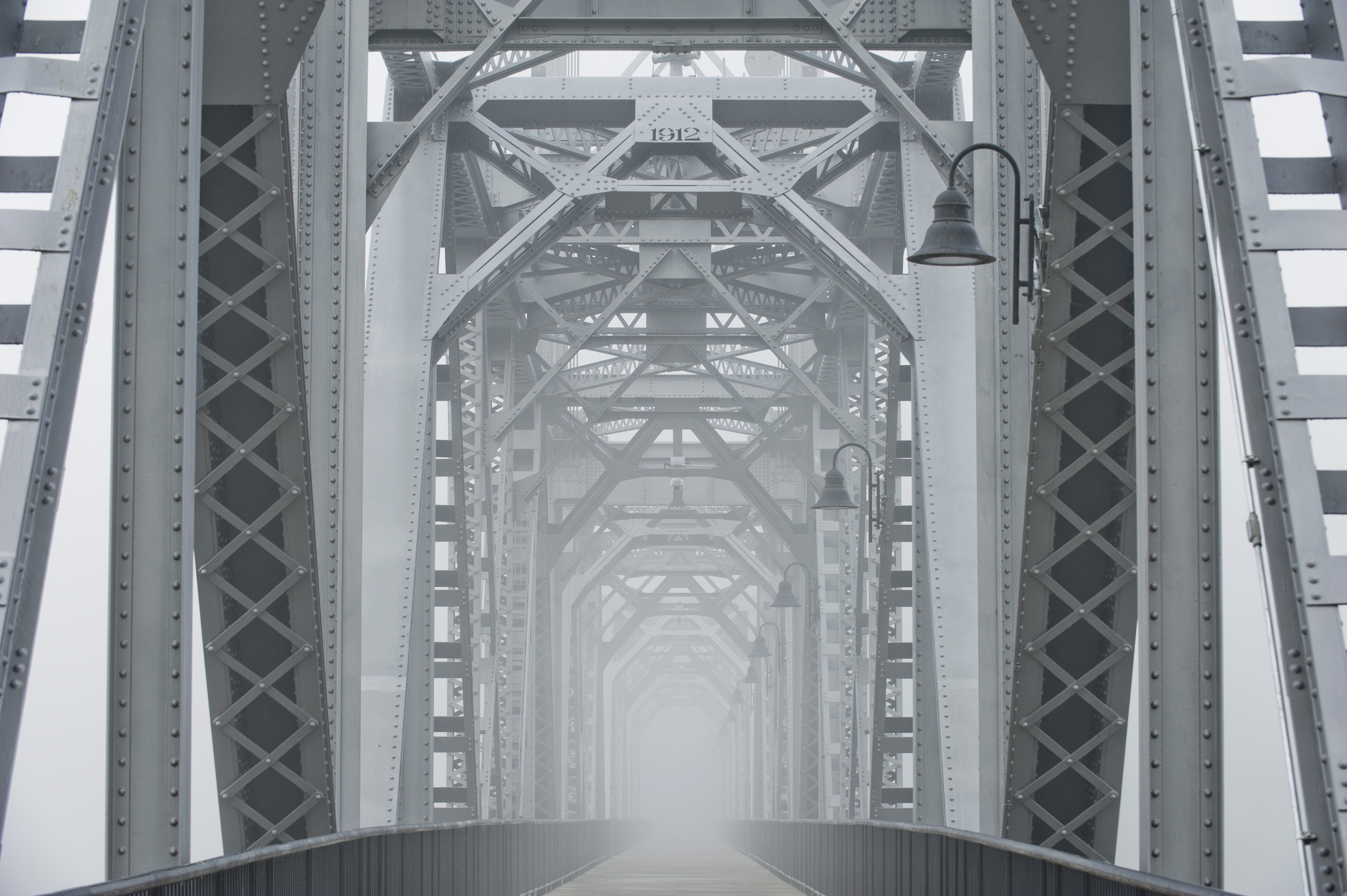 Fog surrounds the Salem Pedestrian Bridge (ex-Union Street Railroad Bridge). This was the runner-up for the Inside ODOT Photo of the Year for 2011.